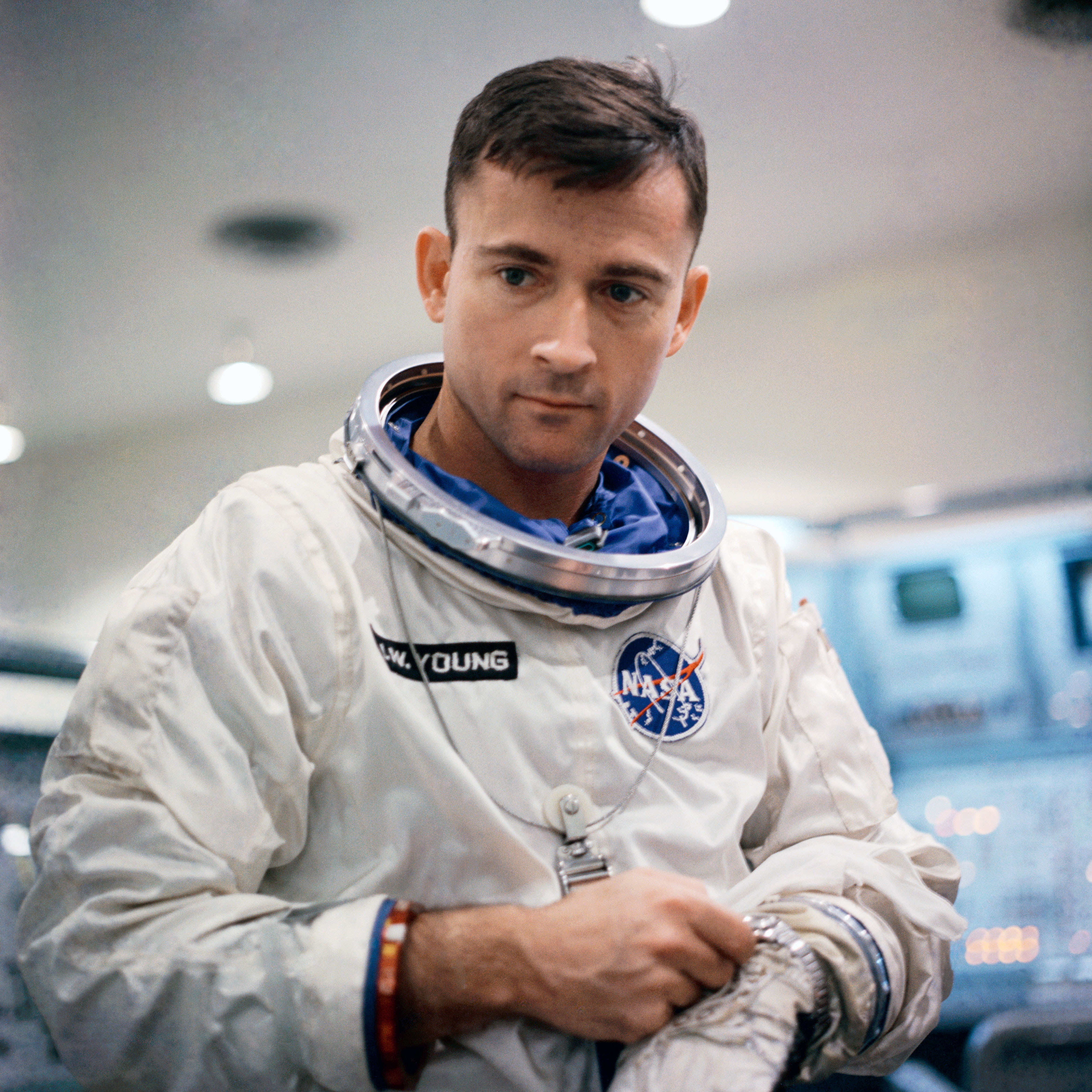 Astronaut John W. Young, the pilot of the Gemini-Titan 3 prime crew, is shown suited up for GT-3 pre-launch test exercises. Image ID: S65-22670